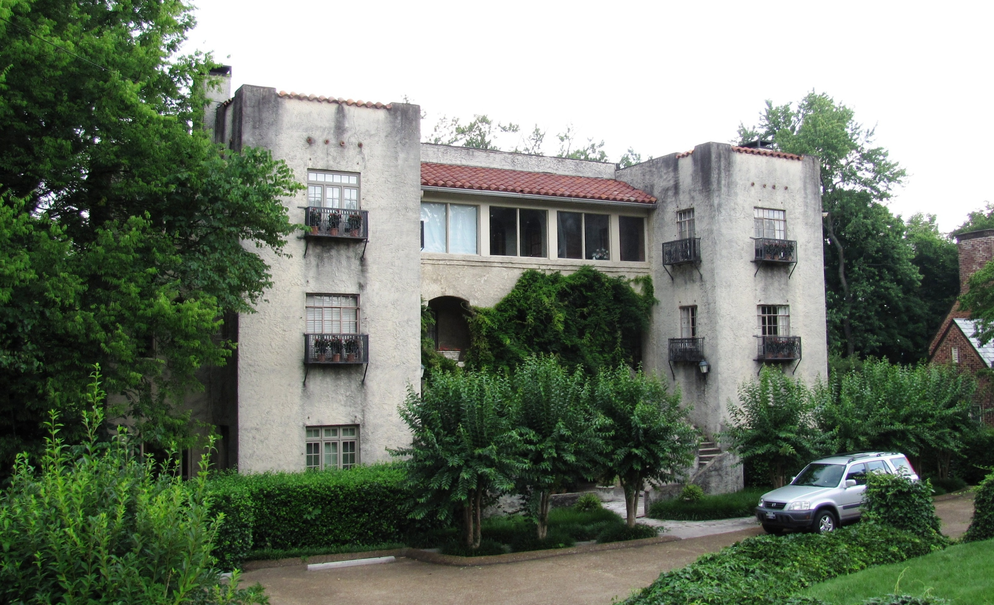 The Nicholas (3051–3065 Kingston Pike) in Knoxville, Tennessee, USA. Built circa 1930, this building is now a contributing property within the NRHP-listed Kingston Pike Historic District.